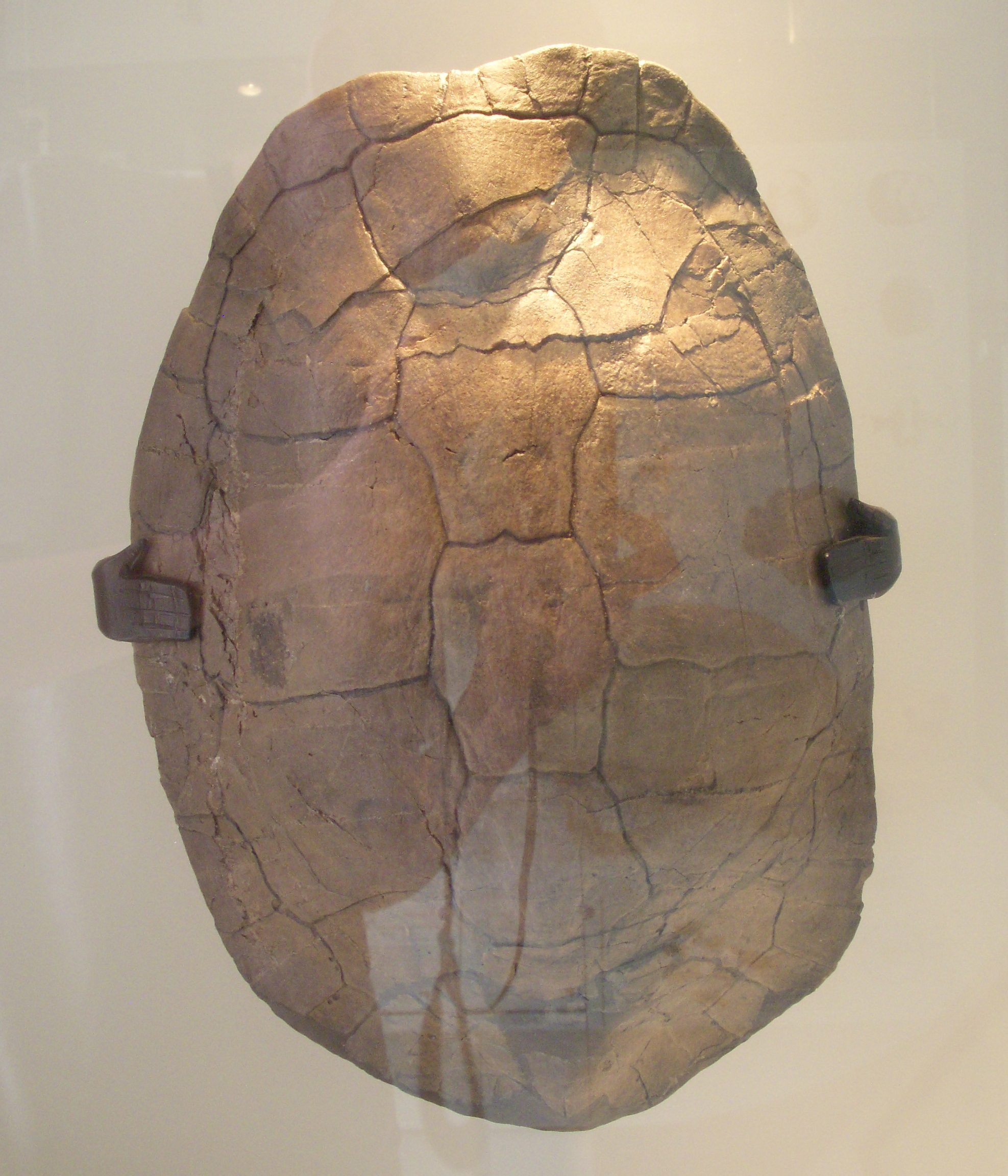 Shell of Echmatemys stevensoniana (specimen AMNH 6084) in the American Museum of Natural History.